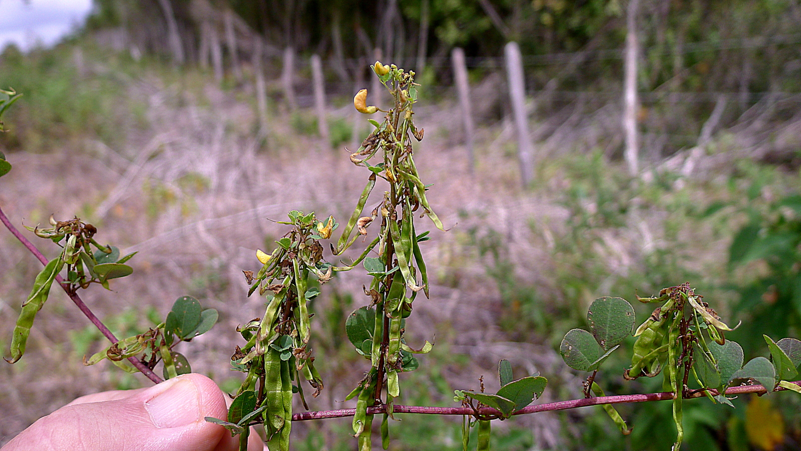 Poiretia punctata (Willd.) Desv. Poiretia punctata (Willd.) Desv., Leguminosae, Atlantic forest, northeastern Bahia, Brazil Scandent plant. Leaves pungent when crushed.